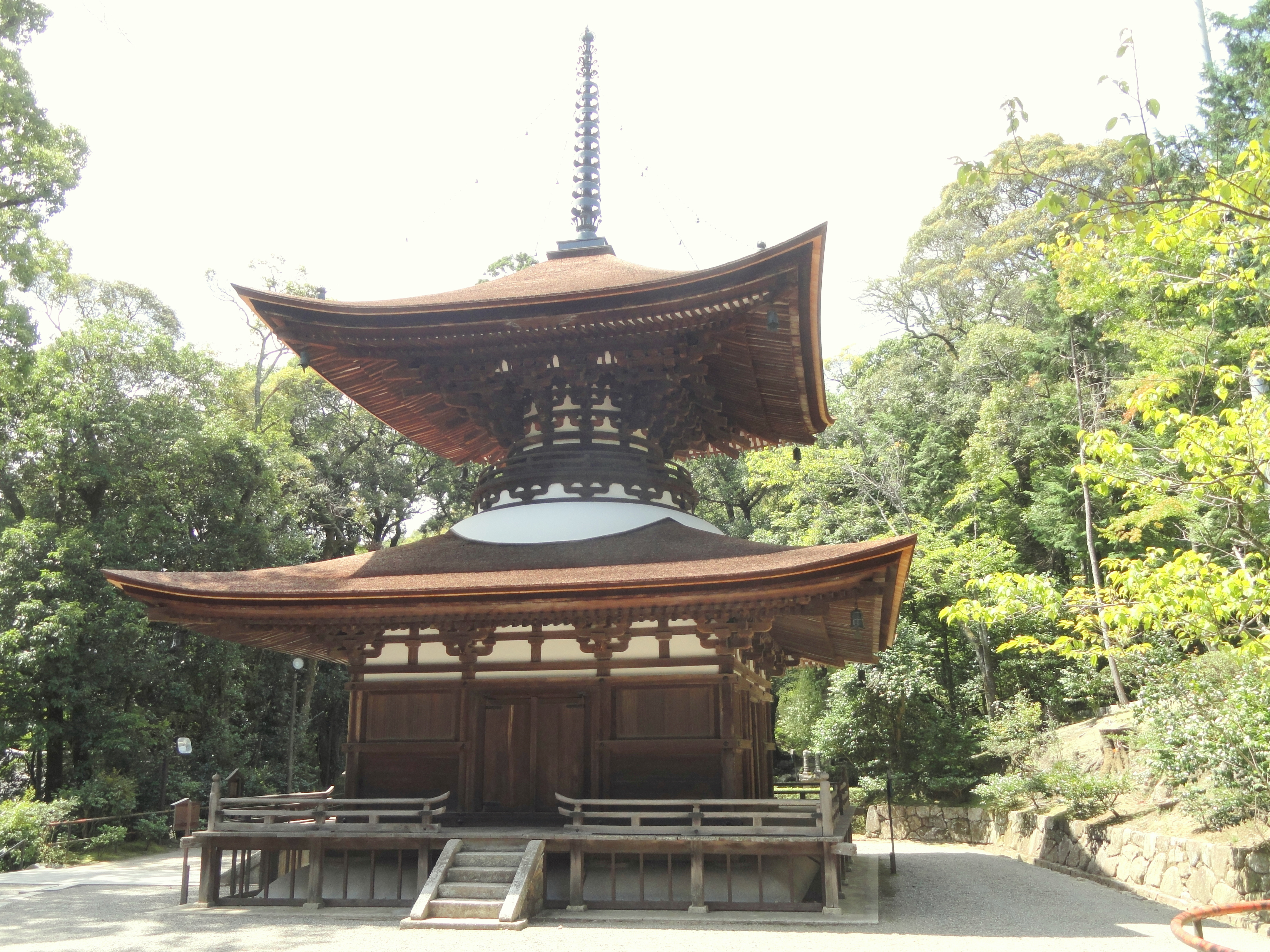 Ishiyamadera (石山寺), Otsu, Shiga, Japan.